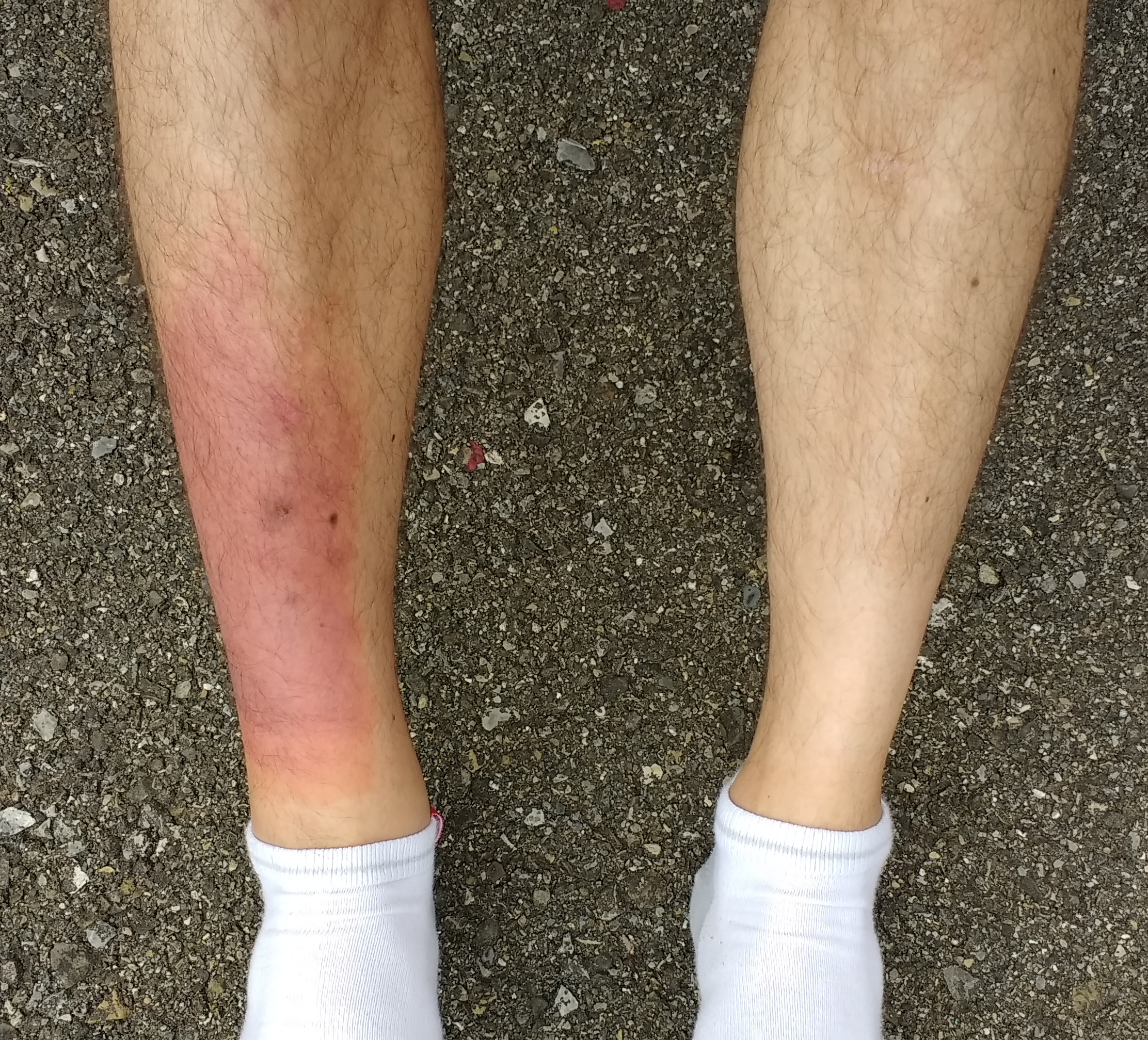 Phototoxic reaction on the right leg where it was treated with Ketoprofen. Taken 3 days after exposure to strong sunlight in summer.